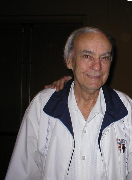 Bill Staton. This is my personal picture I took with my camera and can be released to the public domain.